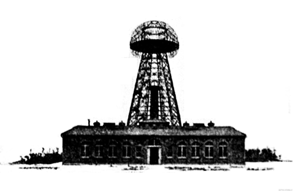 Brochure image of Wardenclyffe Tower